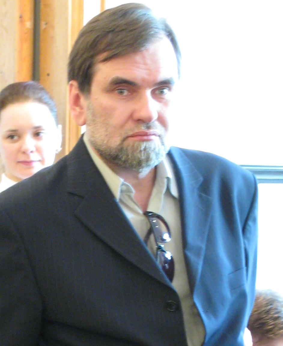 Sergey Selyanov, russian cinema director, scriptwriter and producer